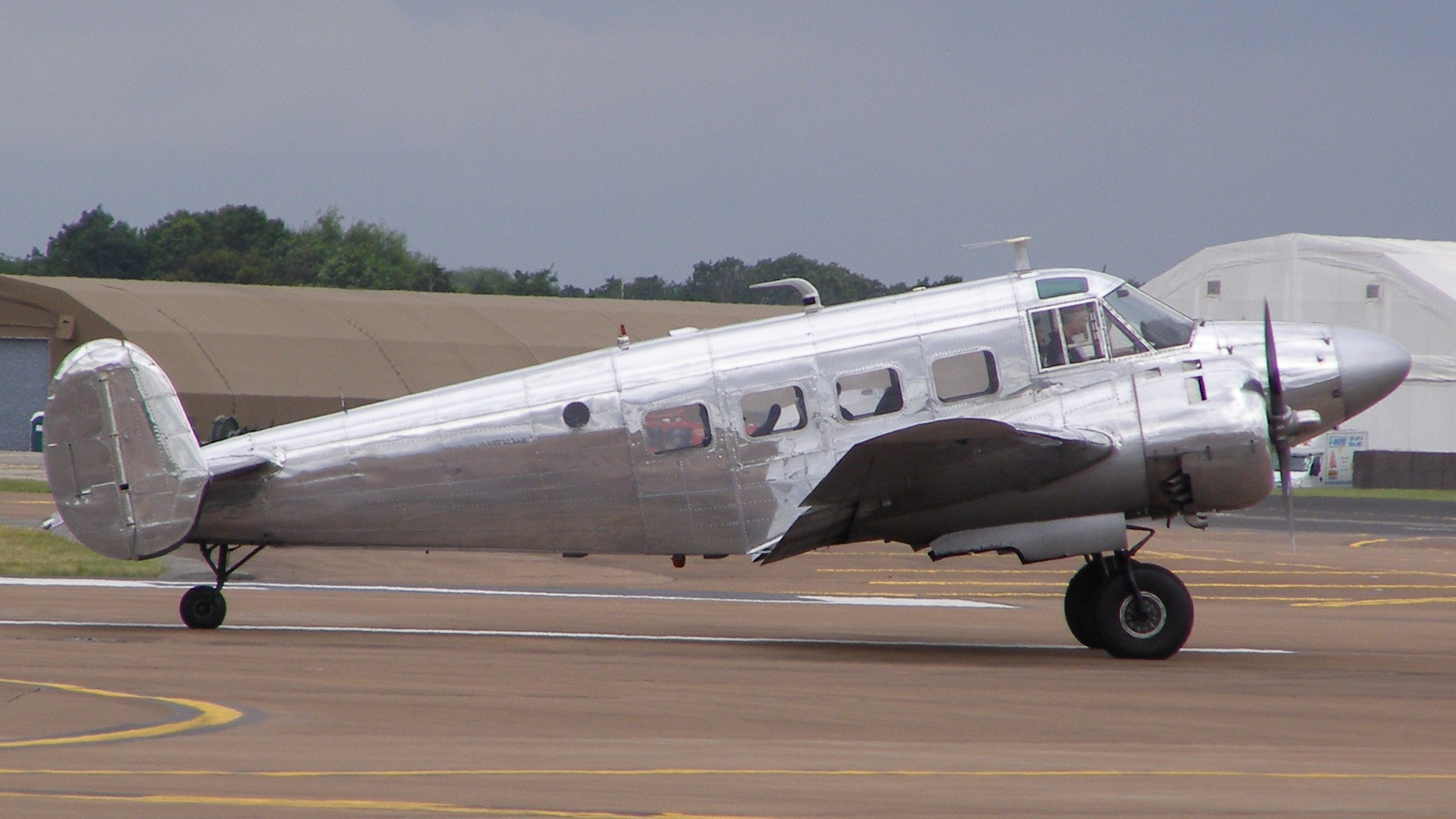 1959-built Beech G18S twin-engined transport, registered in the United States as N45CF, ready to depart from Royal Air Force Fairford in England at the end of the Royal International Air Tattoo 2011.